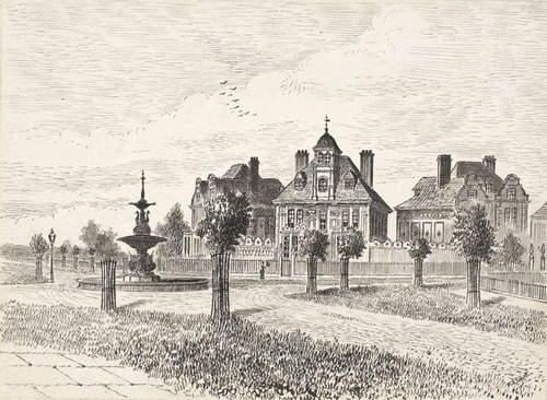 Queen Anne Buildings, Westbourne Avenue , c.1886